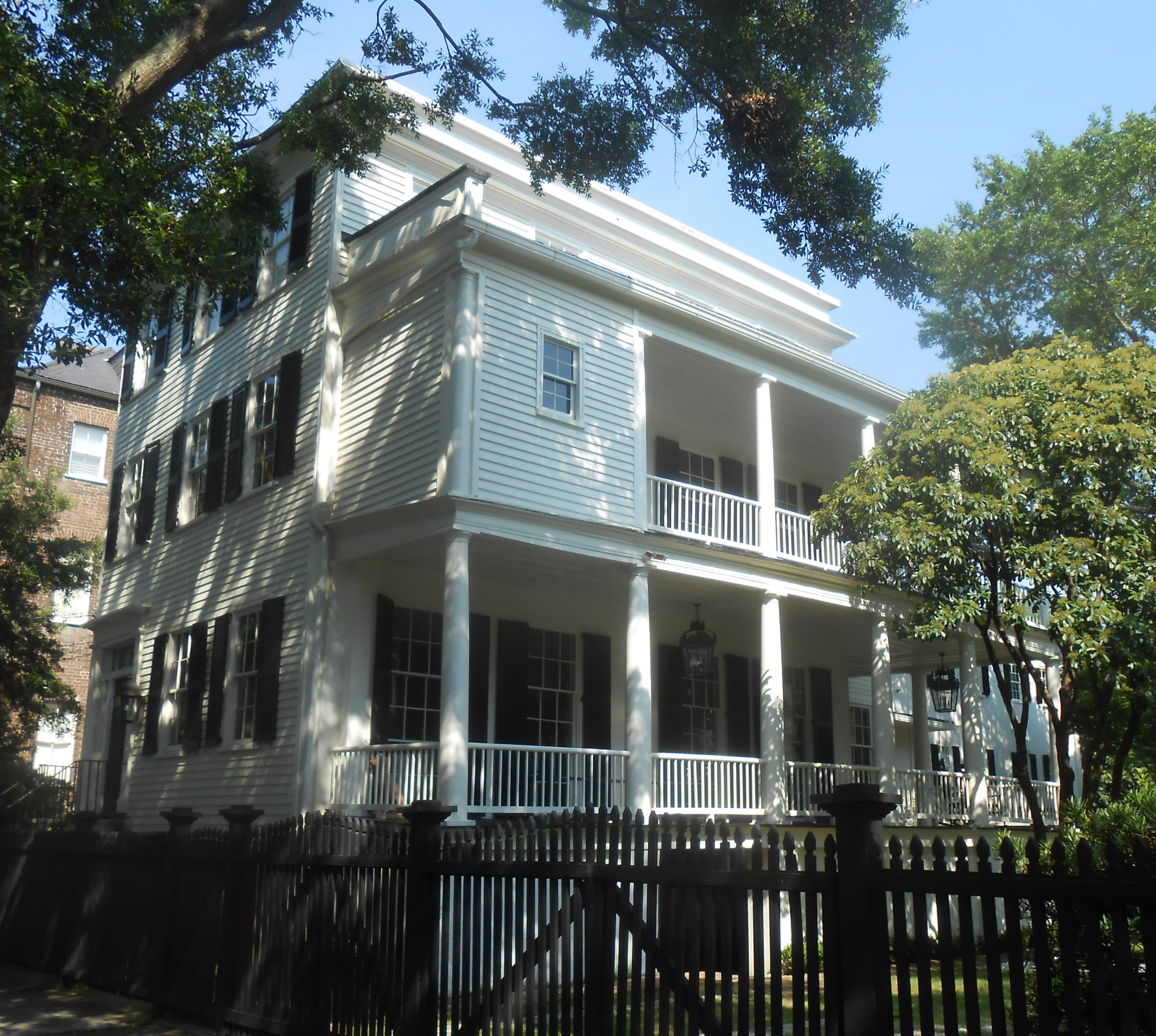 49 Laurens Street, Charleston, South Carolina